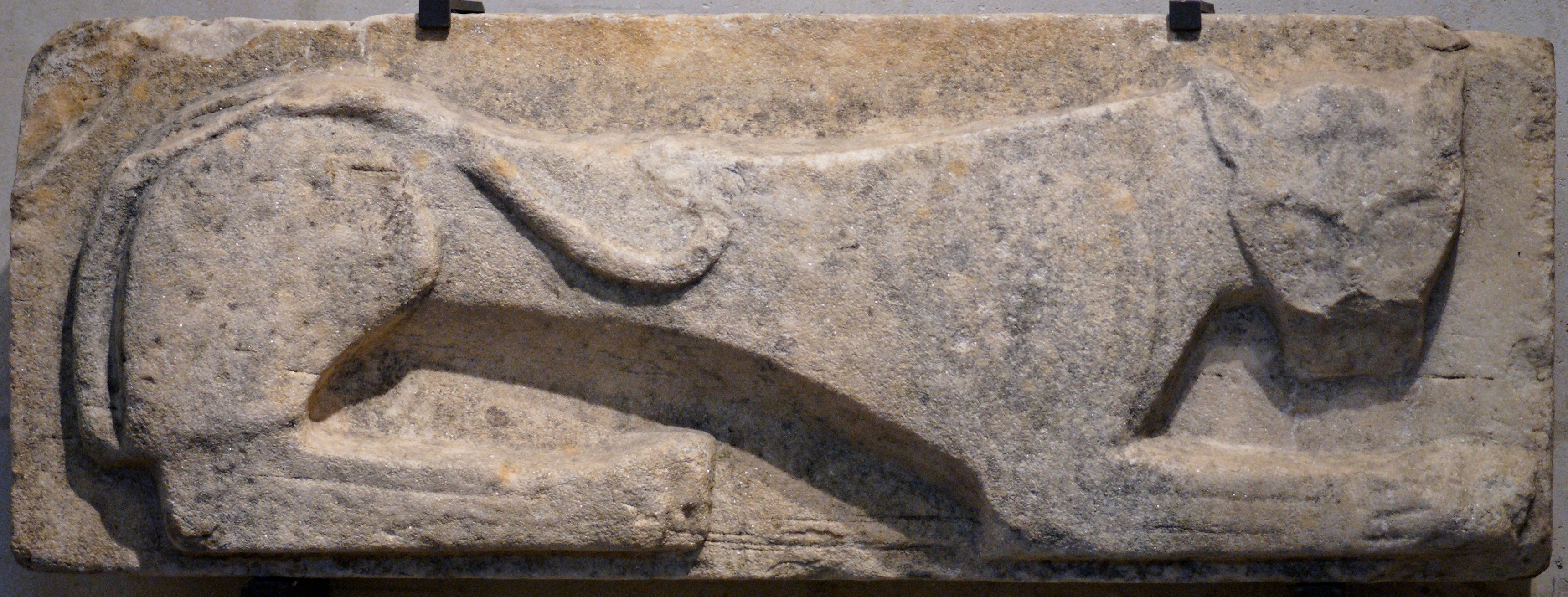 Relief with a panther from the passageway to the temple of Apollo in Thasos. Thasian marble, archaic Greek artwork, ca. 640 BC. Provenance : Thasos.